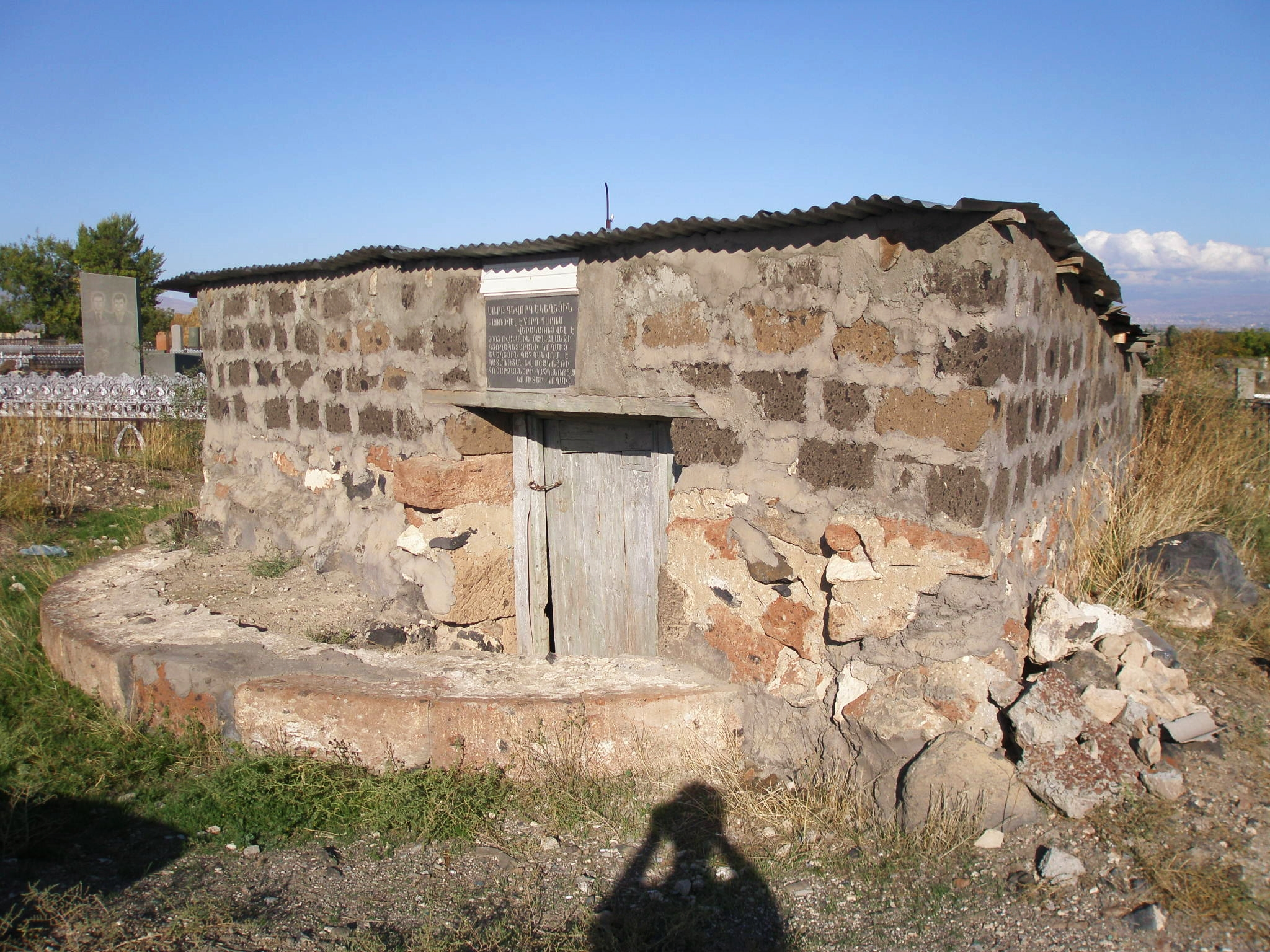 S. Gevorg chapel (7th century, restored 1870s), Tsaghkalanj, Armavir Province, Armenia.